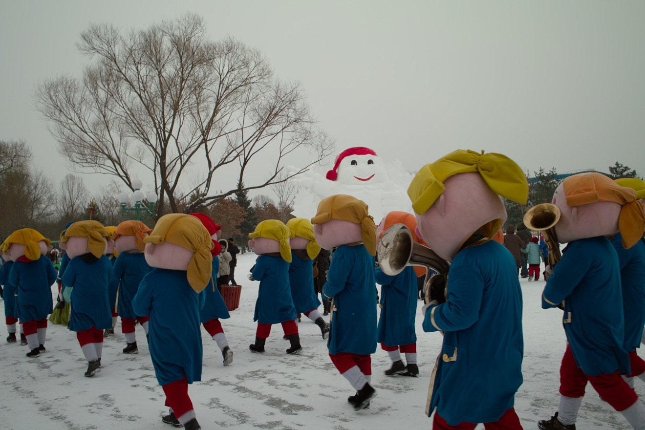 Snow Sculpture, Harbin, 2009